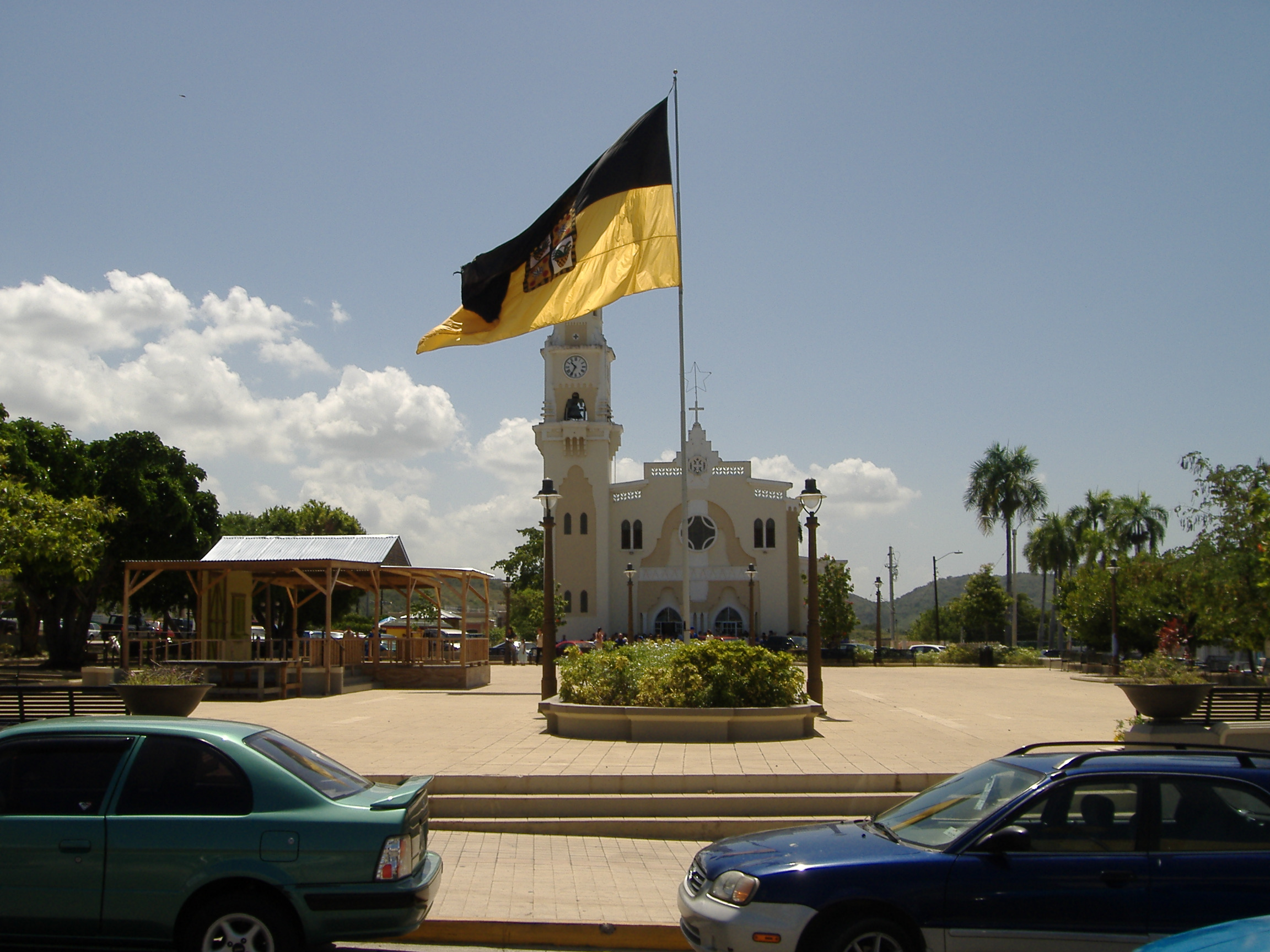 2nd public plaza, flagpole and front facade of Catholic church in Yauco, Puerto Rico.